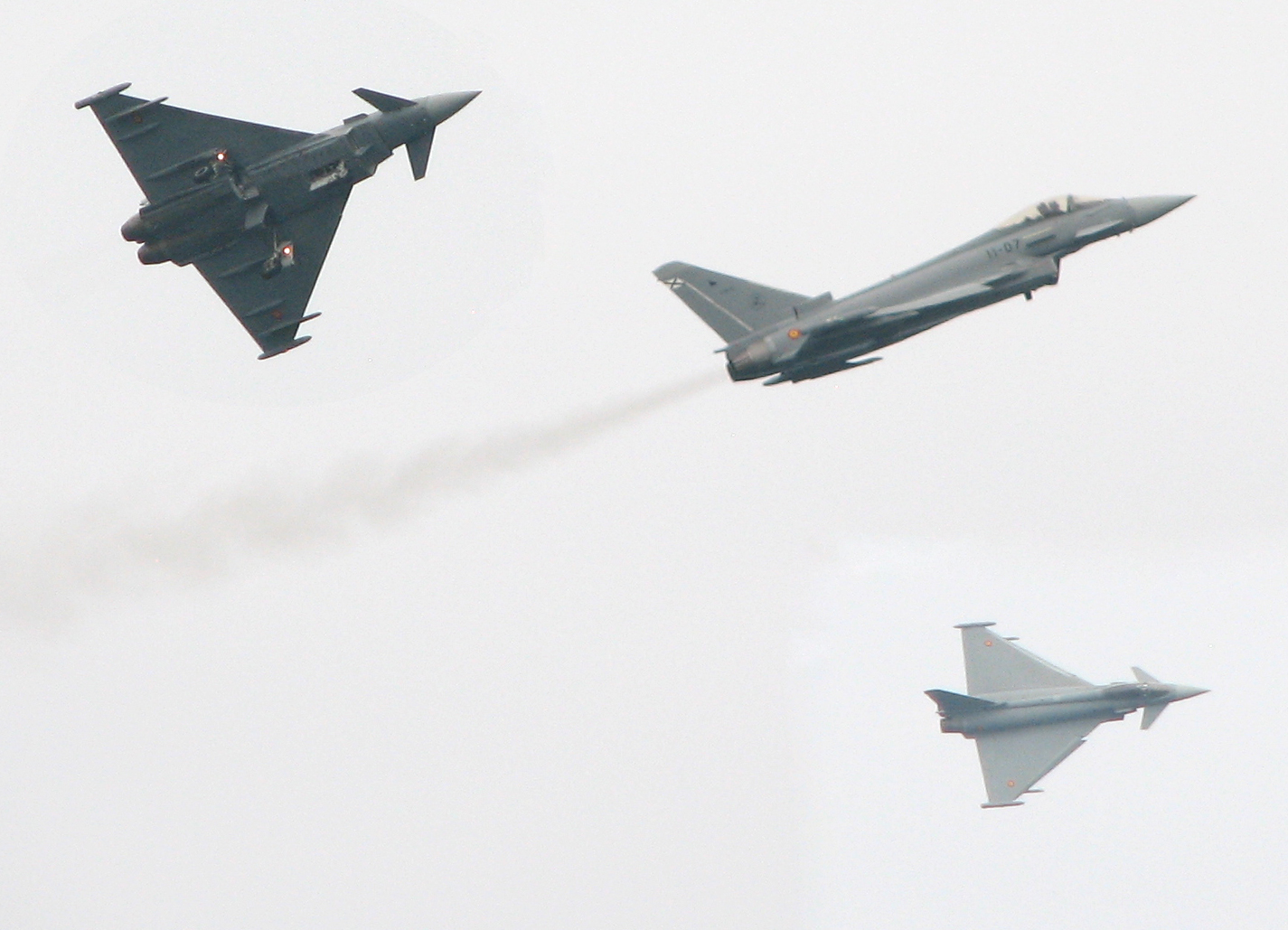 Eurofighter Typhoon of the Spanish Air Force in Gijón Air Show 2007. Gijón, Spain. 2007-07-29.